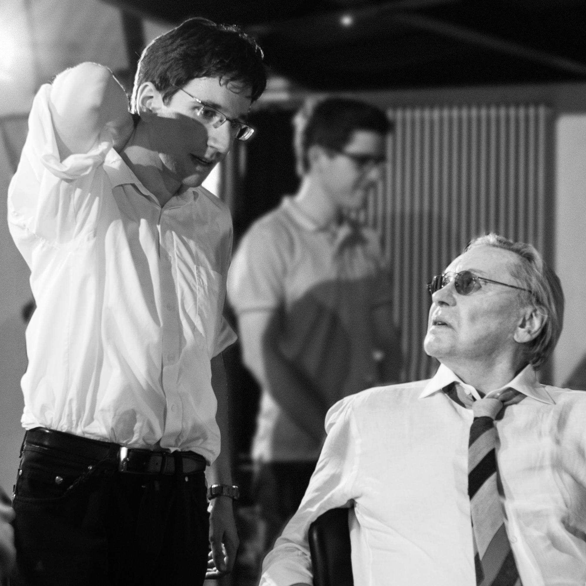 Helmut Berger (right) and Alexander Tuschinski (left) on the set of Timeless.